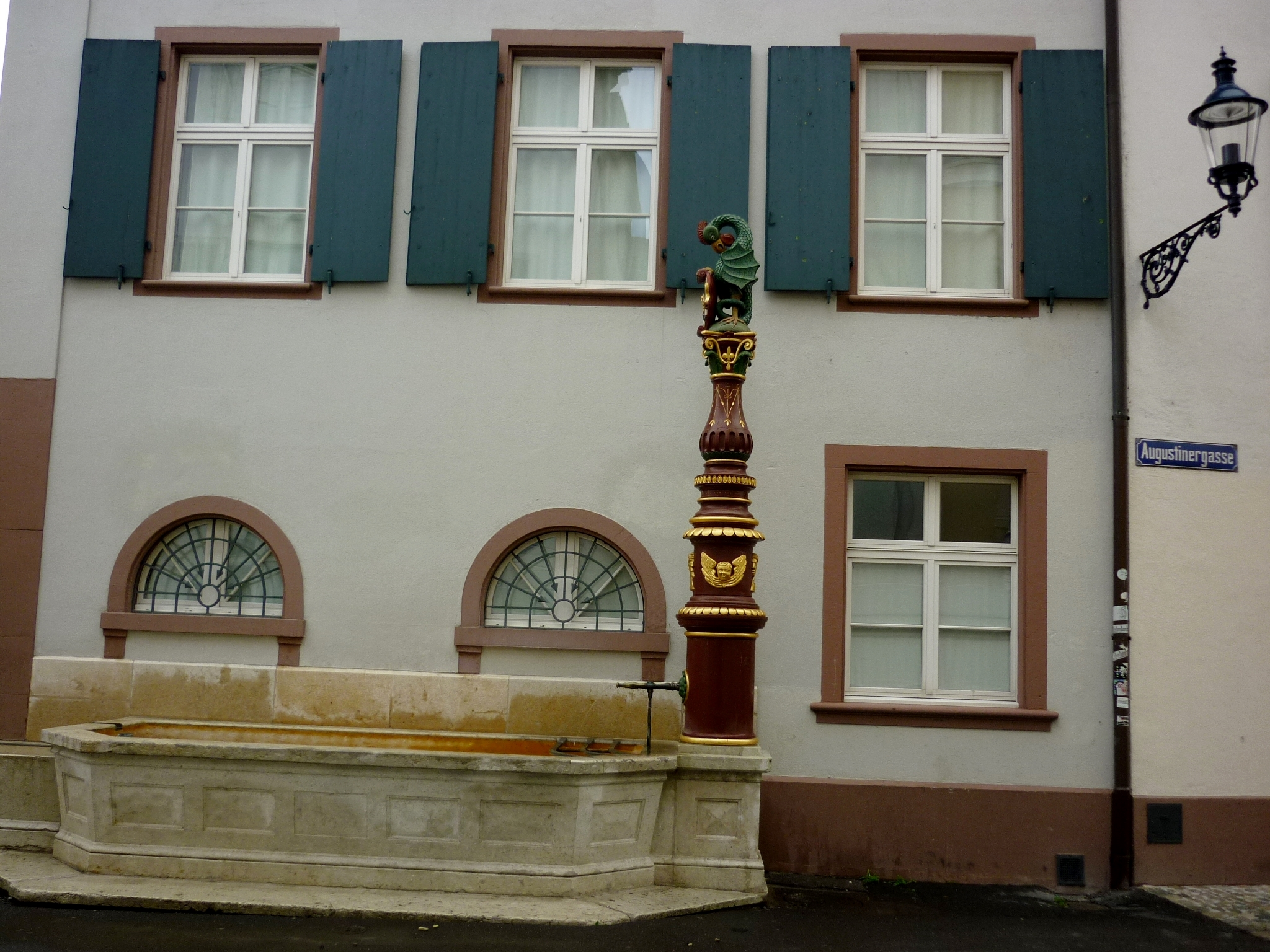 Standpipe in Basel